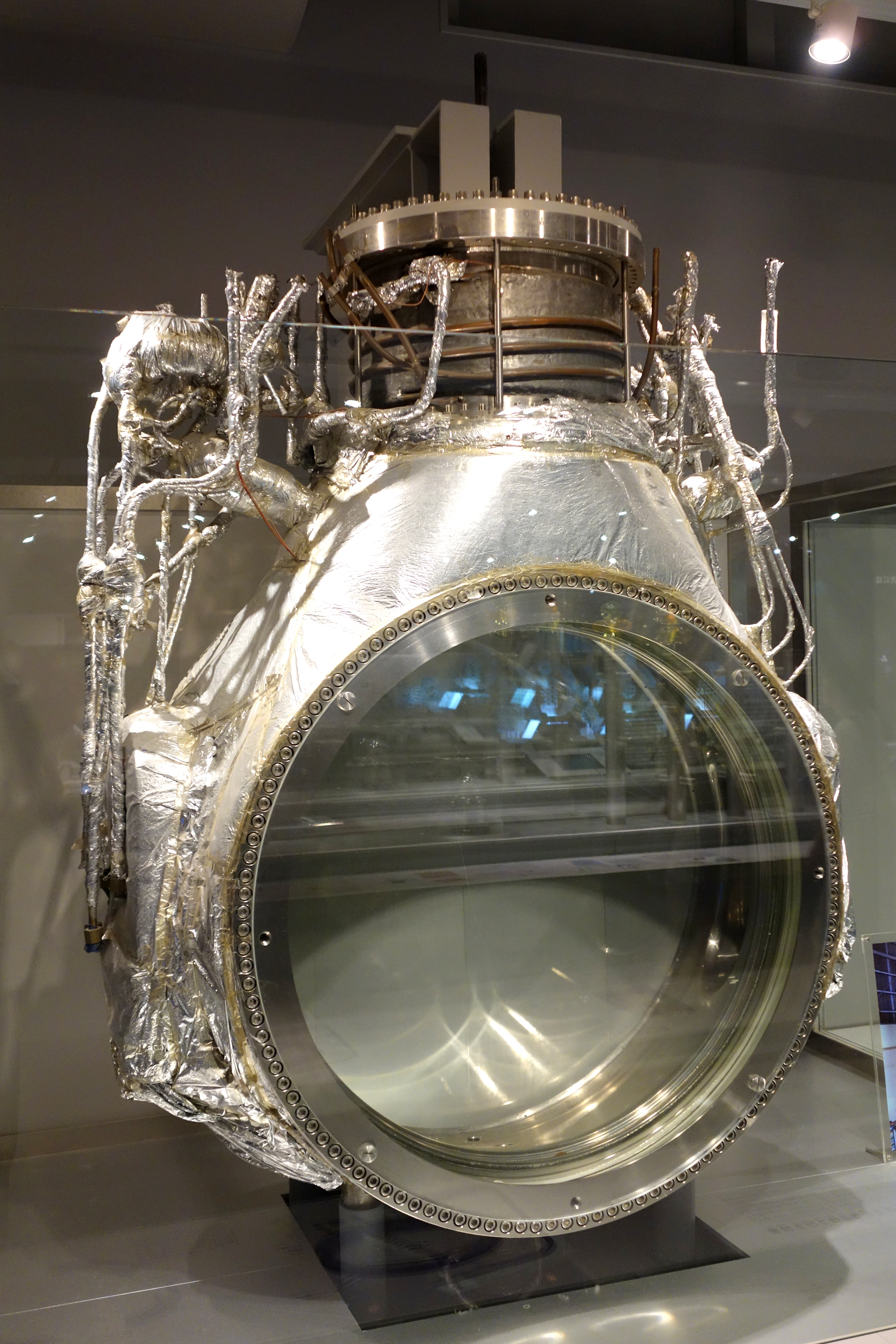 Exhibit in the National Museum of Nature and Science, Tokyo, Japan.